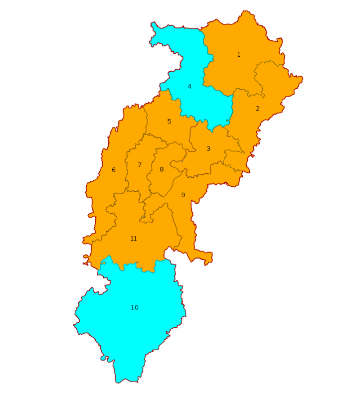 Seats won by parties in Chhattisgarh parliamentary constituencies